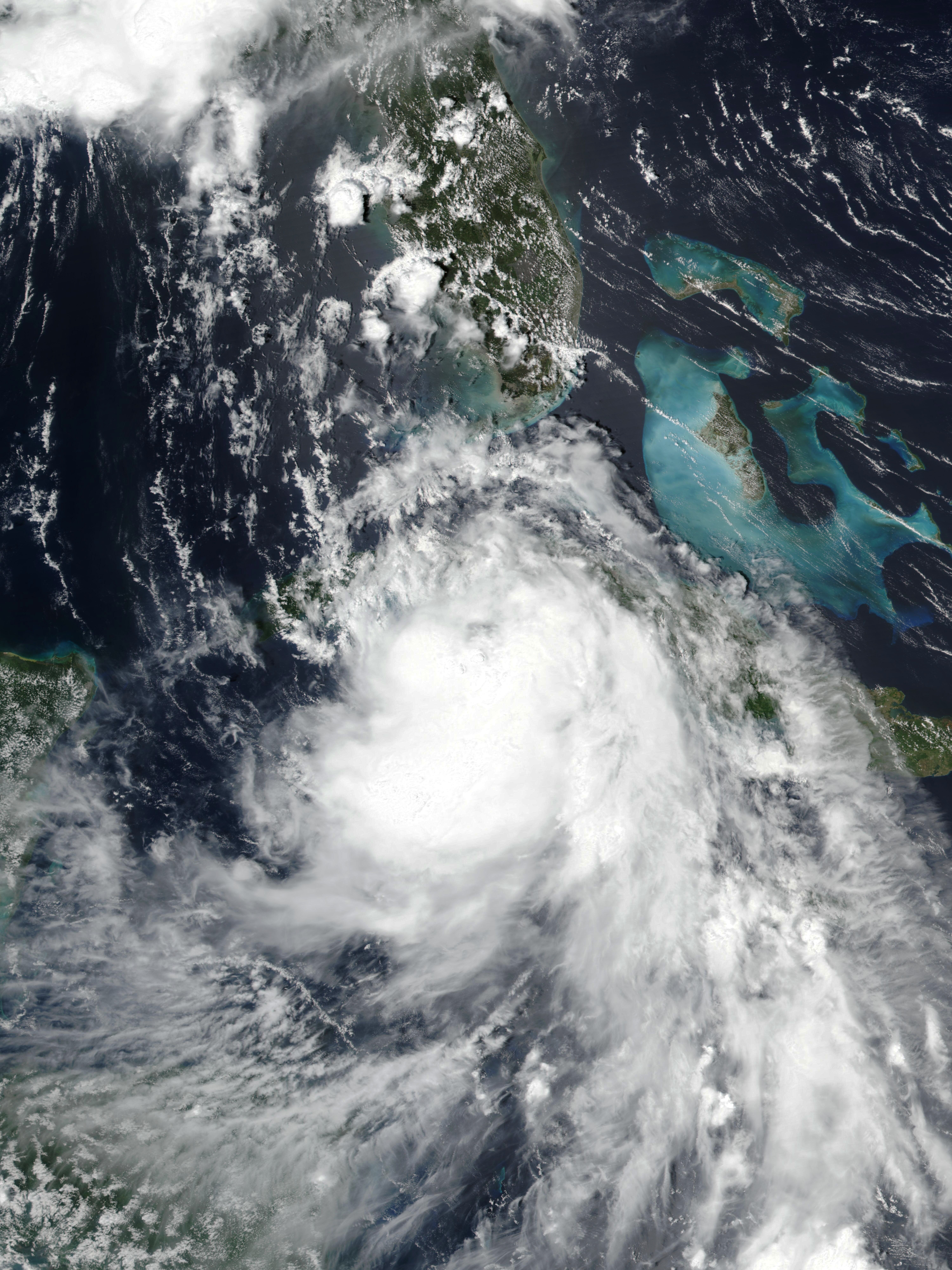 Tropical Storm Laura on August 24, 2020